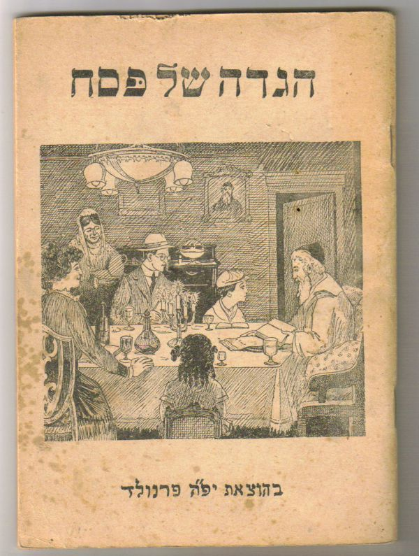 Passover Haggadah from DP camp of Fohrenwald